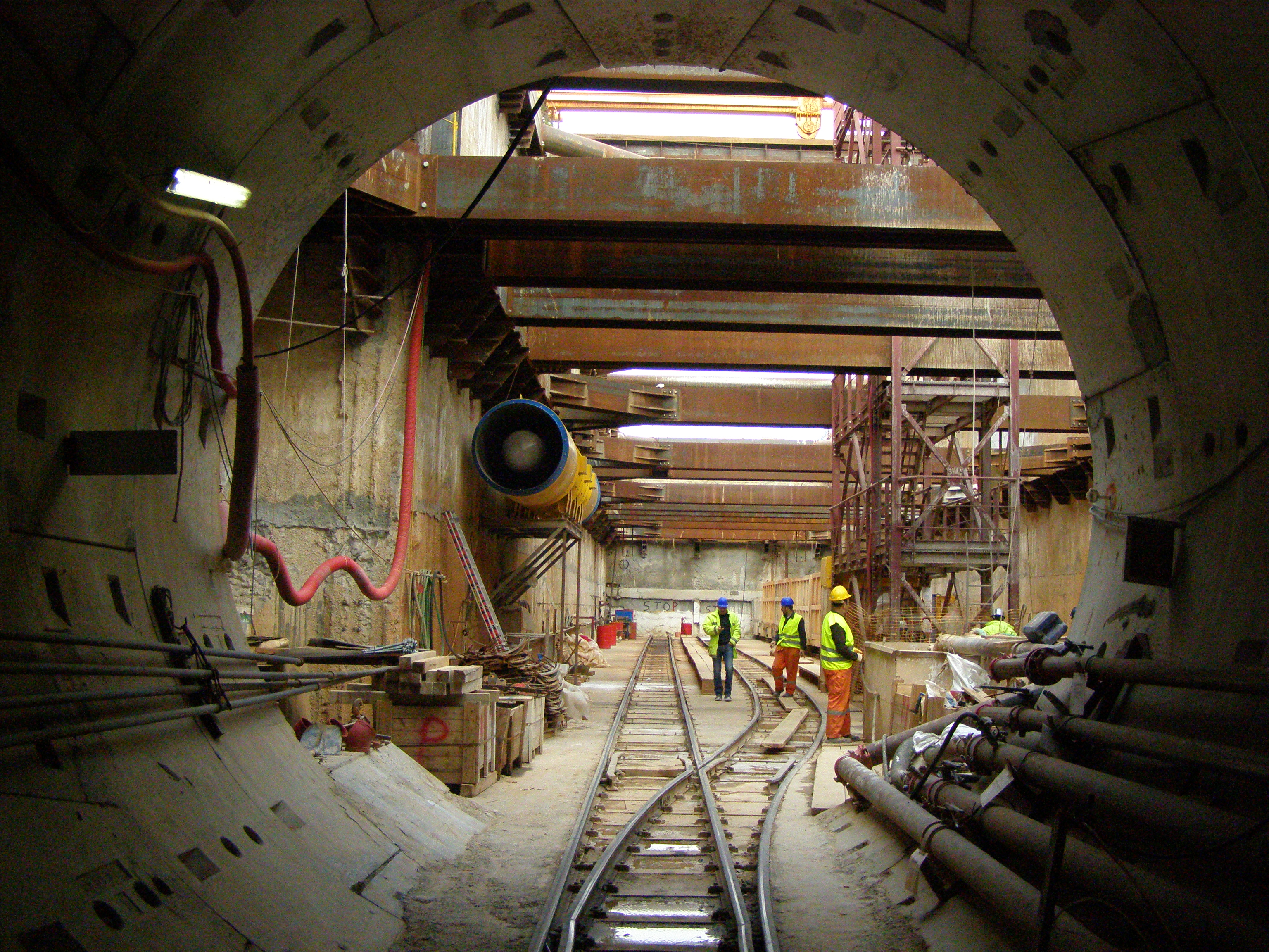 Construction site of Thessaloniki's Metro seen from the inside of a tunnel.